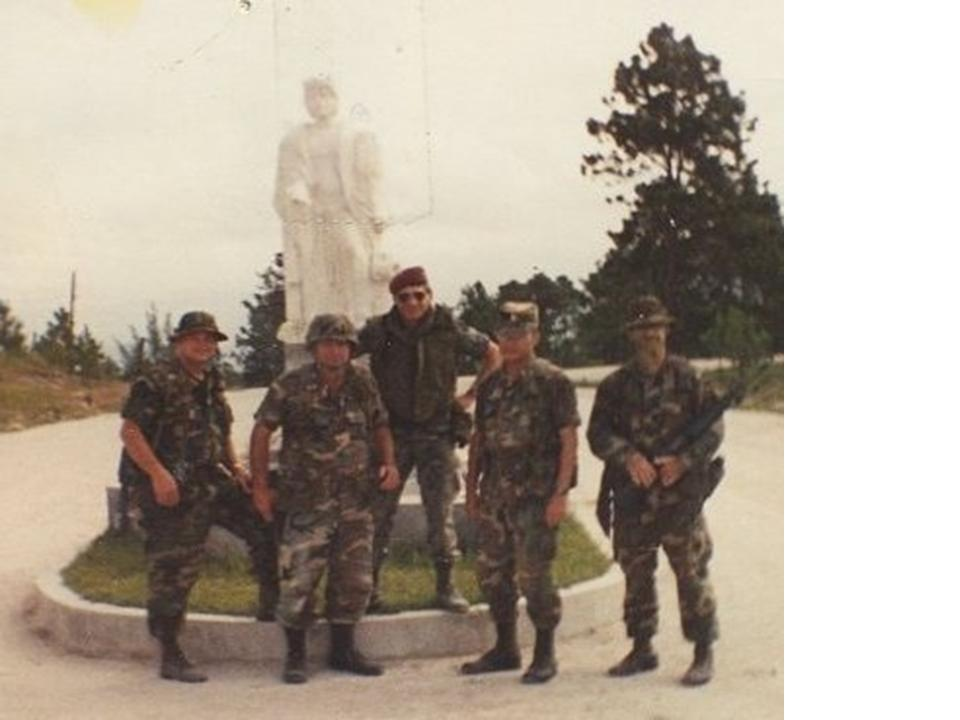 Members of the Battalion Staff of the 5th Battalion, 206th Field Artillery standing in front of the statute of St. Barbara at the Honduran Artillery School in Zambrano Honduras, June 1990. Pictured from Right to Left are 1LT Al Parsons; MAJ John Brackin, Battalion S3; MAJ Herb Lawrence, Battalion XO, CPT John Brady, Battalion S2, Chief Warrent 4 Officer Steven Keeton, Target Acquistion Radar Warrent Officer